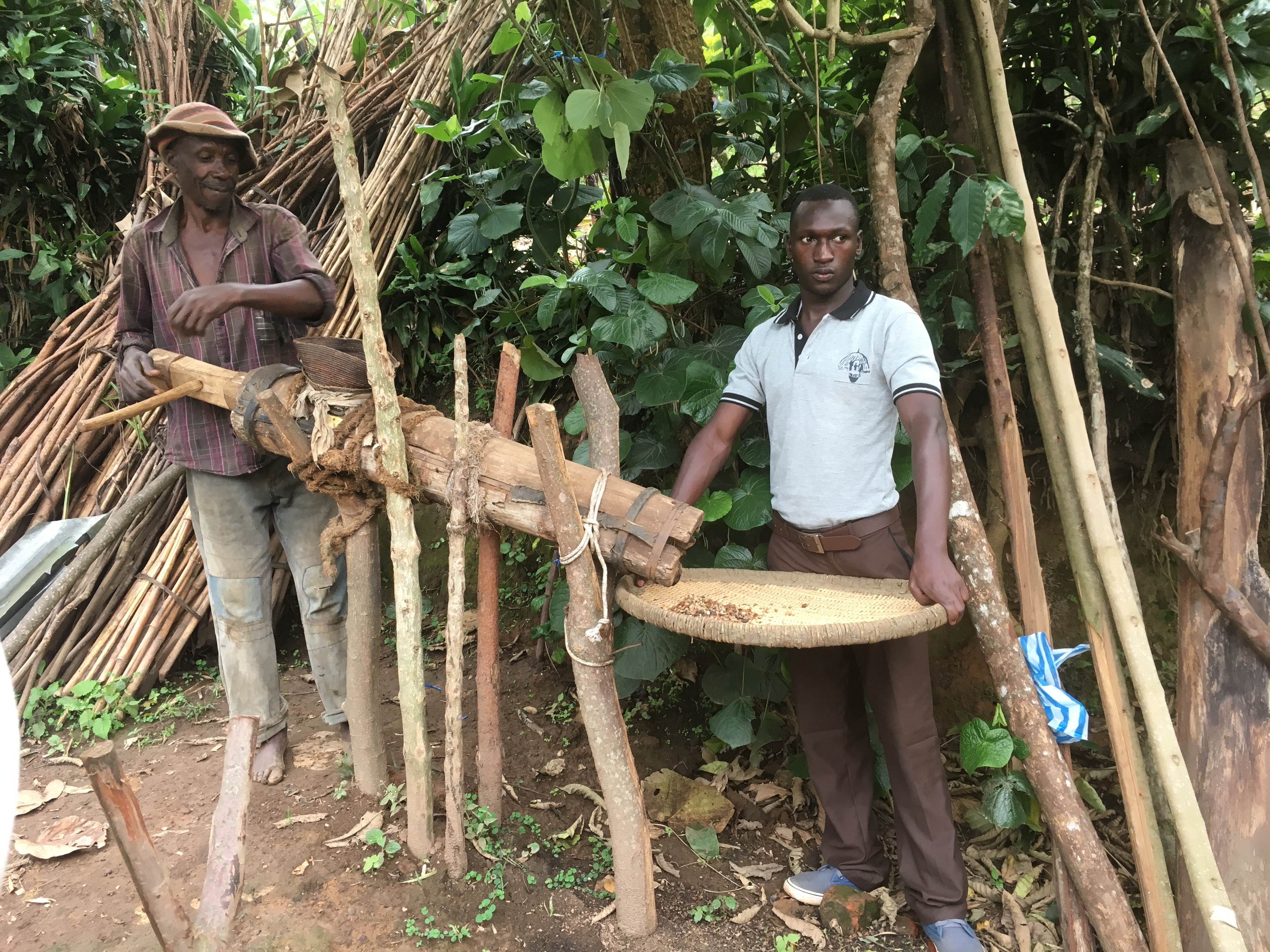 Coffee Farmer. This coffee farmer grows his own beans, roasts them and grinds them and then sells the coffee. Here he is grinding the roasted beans in a homemade grinder. This is an image of "African people at work" from Uganda